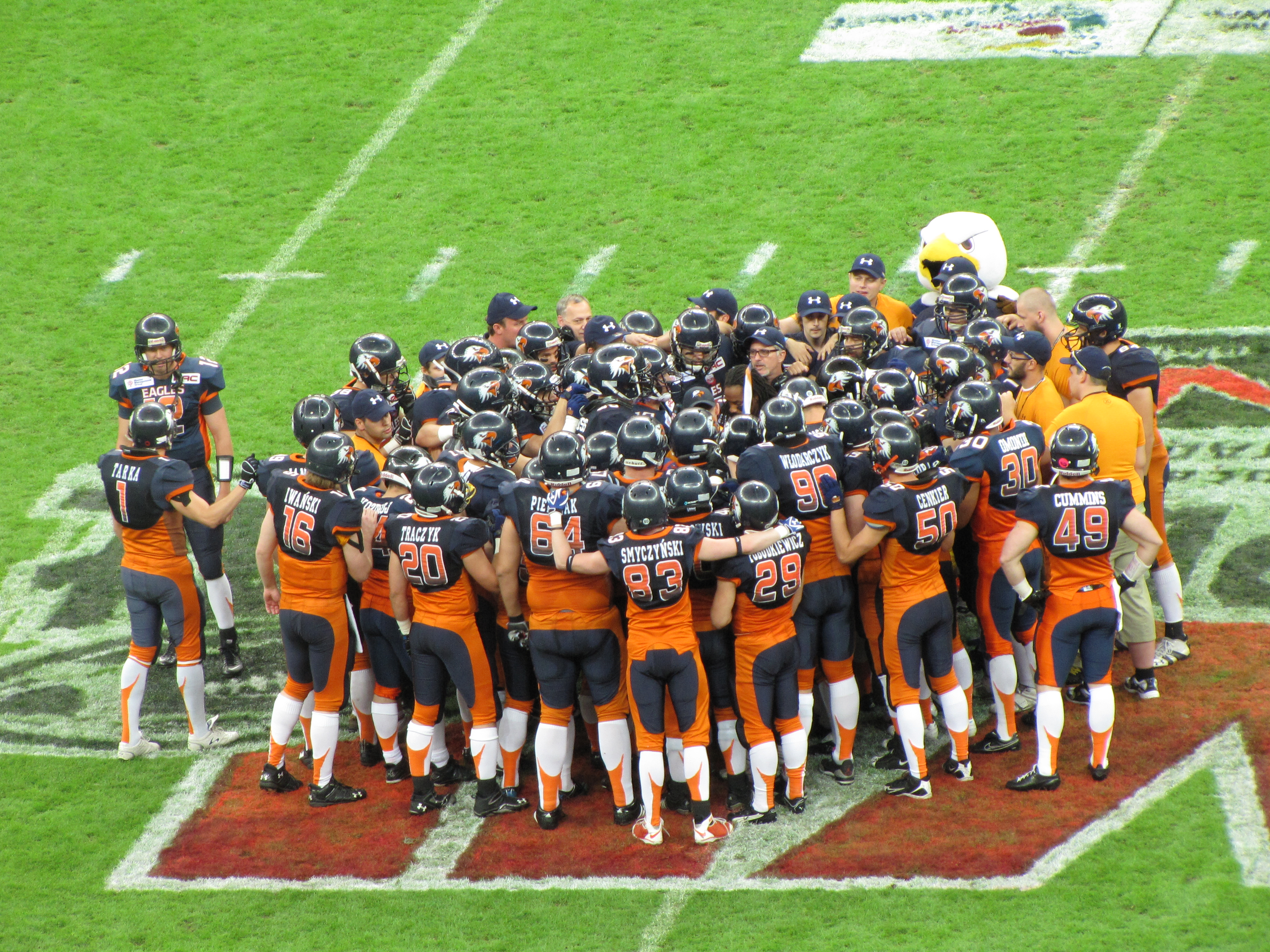 VII NAC SuperFinał